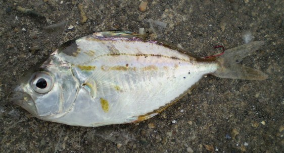 Nuchequula nuchalis (Leiognathus nuchalis), Leiognathidae